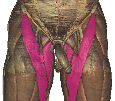 Anterior dissection of the Visible Human Male showing the borders of the femoral triangle.